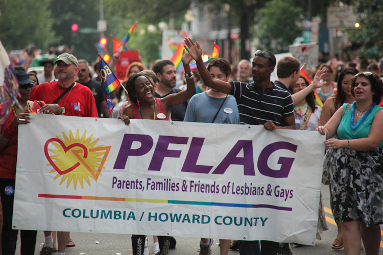 Parents and Friends of Lesbians and Gays (PFLAG) always has a huge contingent at D.C. pride. Capital Pride is Washington, D.C.'s lesbian, gay, bisexual, transgender, transsexual, and questioning annual parade and festival. In 2010, the parade was on June 12 from 6 to 8 PM. Usually, I take photos at P Street NW and Dupont Circle. In 2010, I decided to take photos at P and 14th Street NW. Bad decision: The parade was so long, I ran out of light at the end!